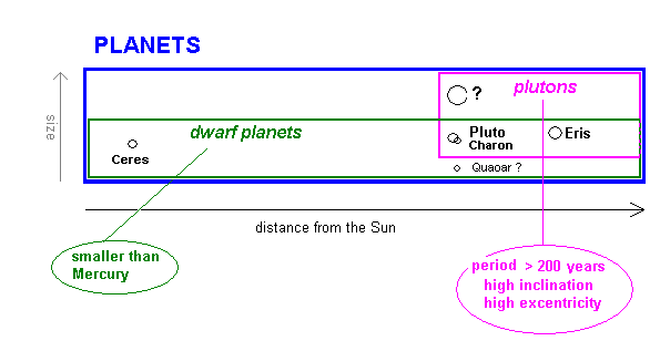 Draft definition of planet- subclasses.